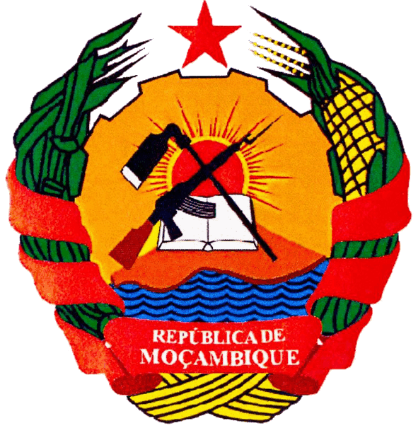 Mozambican coat of arms